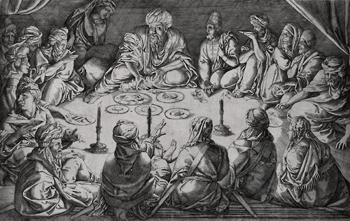 King Mulay Hasan and His Retinue at a Repast in Tunis, ca. 1535.